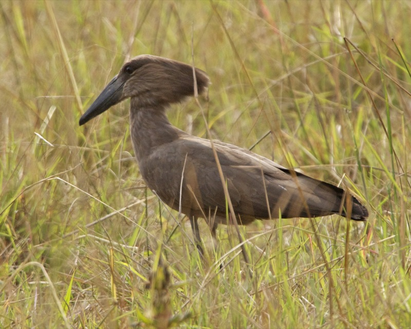 Hamerkop Scopus umbretta Akagera National Park, Rwanda 15th. August 2009 690V1116